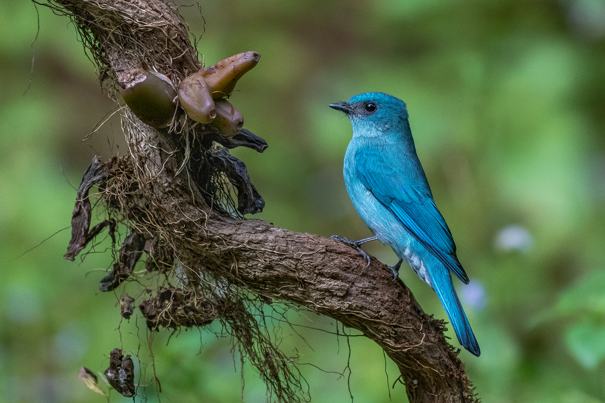 Verditer Flycatcher, from Dandeli, Karnataka, India; Photographer: Prasanna Kumar Mamidala